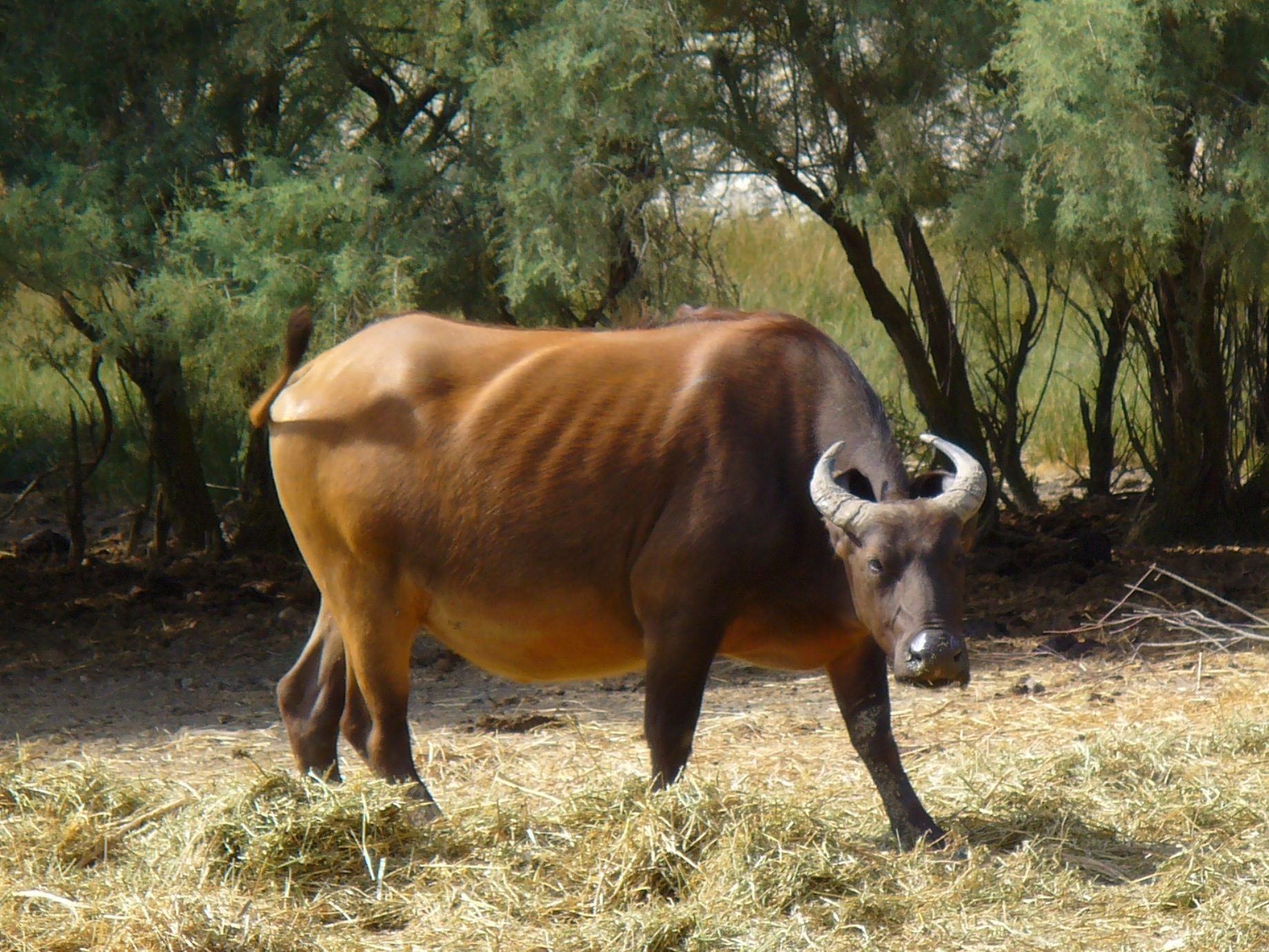 Syncerus caffer nanus, Bovidae, Forest Buffalo; Réserve africaine de Sigean, Sigean, France